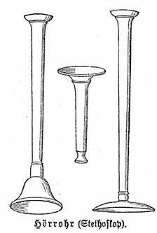 Early forms of stethoscopes.